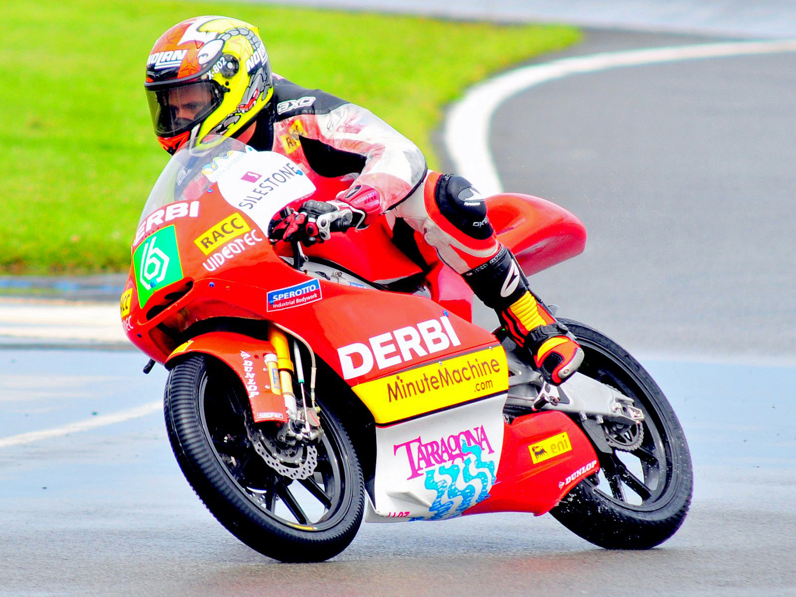 Joan Olivé at the 2009 British motorcycle Grand Prix